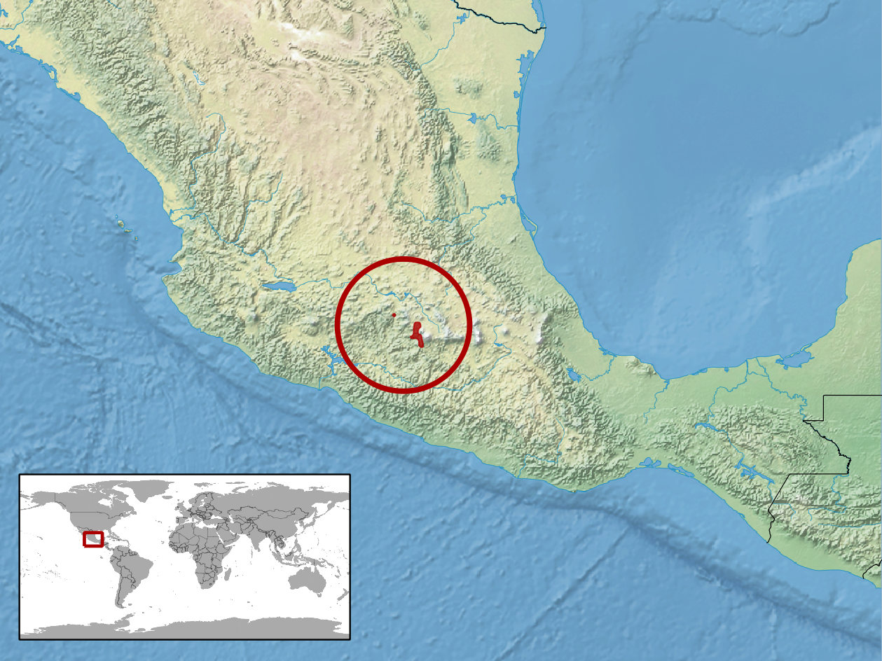 geographic distribution of Barisia rudicollis (Native: Mexico)